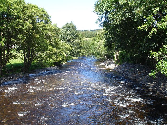 River Vyrnwy. From the 509987.